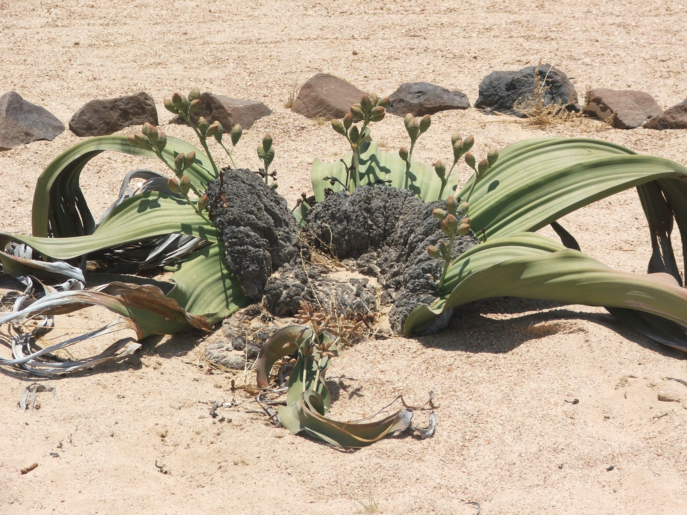 female Welwitchia mirabilis